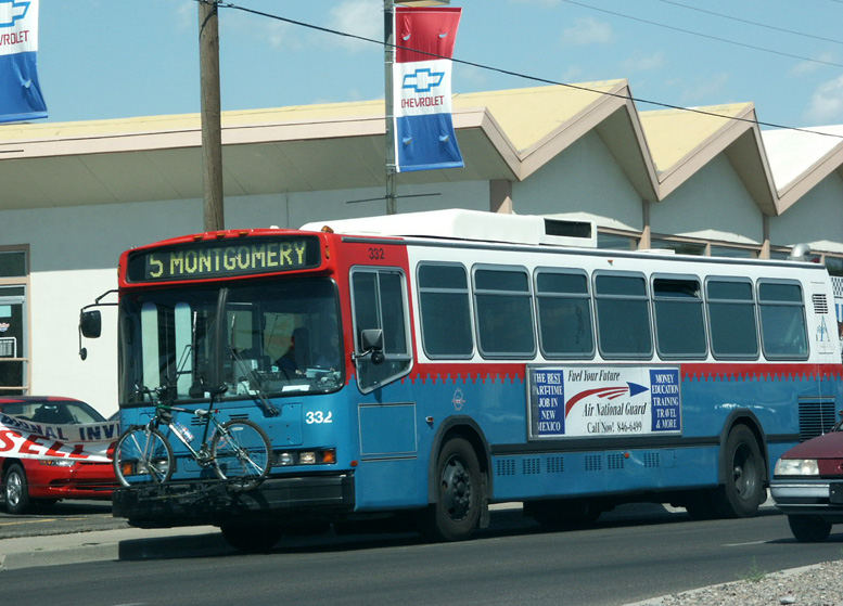 ABQ RIDE Neoplan AN440 CNG bus, bicycle on bus, Albuquerque, New Mexico, USA. Photo by User:camerafiend.